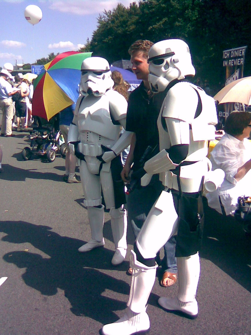 Stormtrooper posing